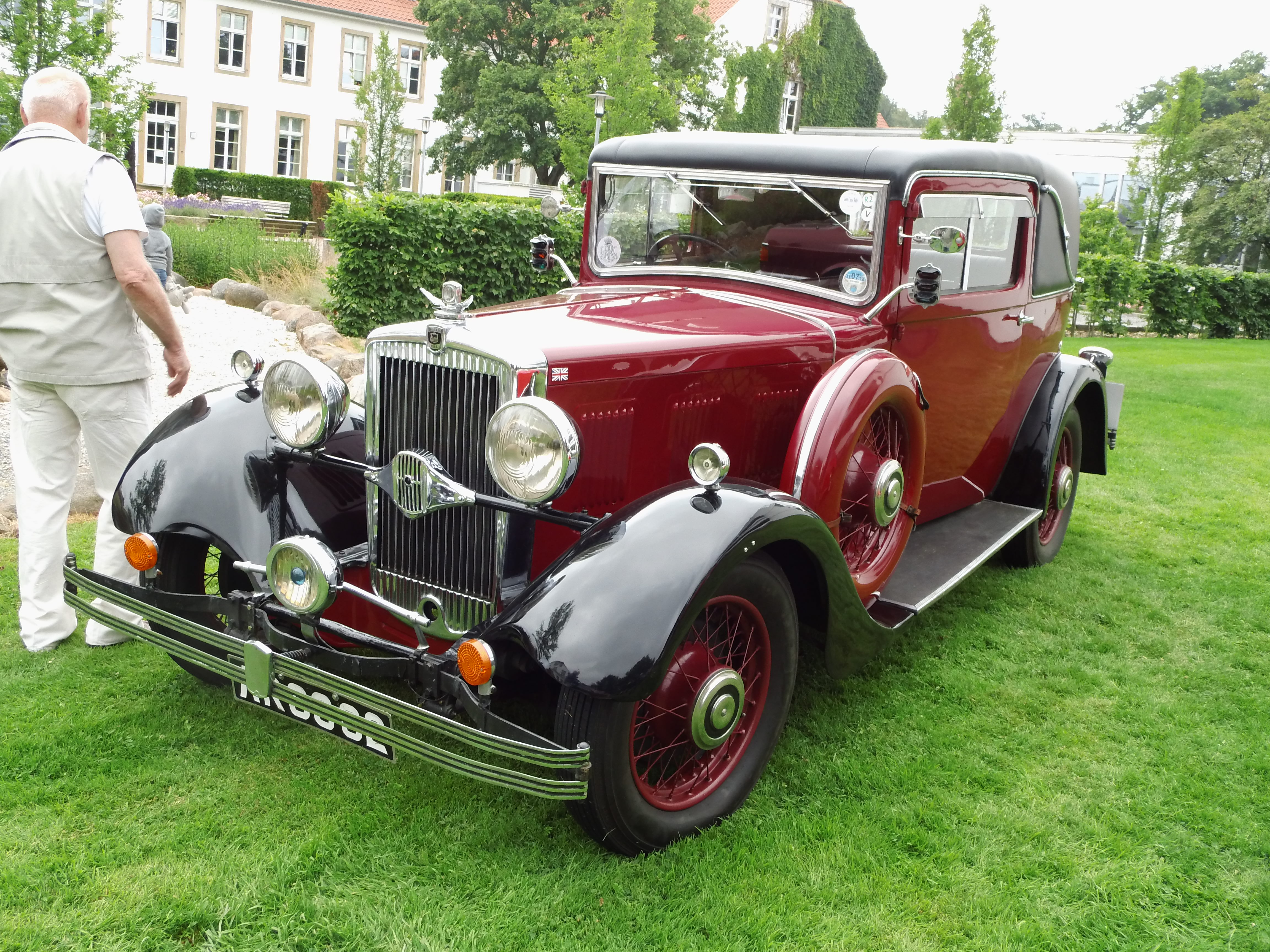 Morris IsisSpecial coupé